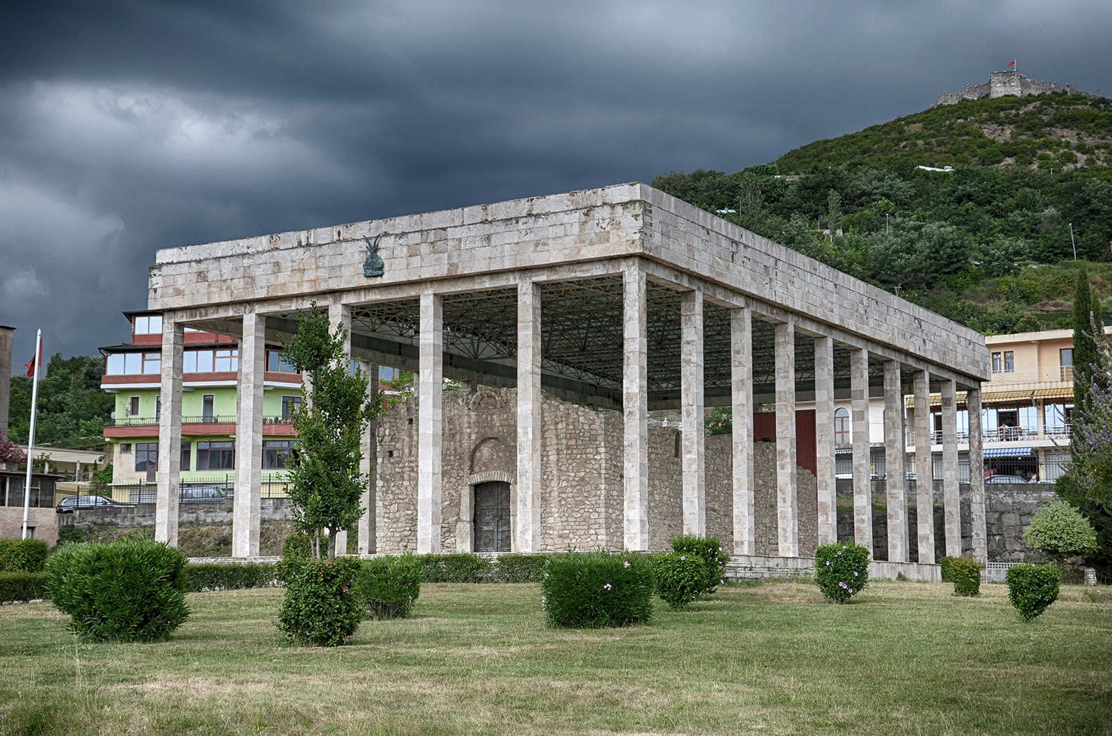 The Skanderbeg Memorial in Lezhë, Albania